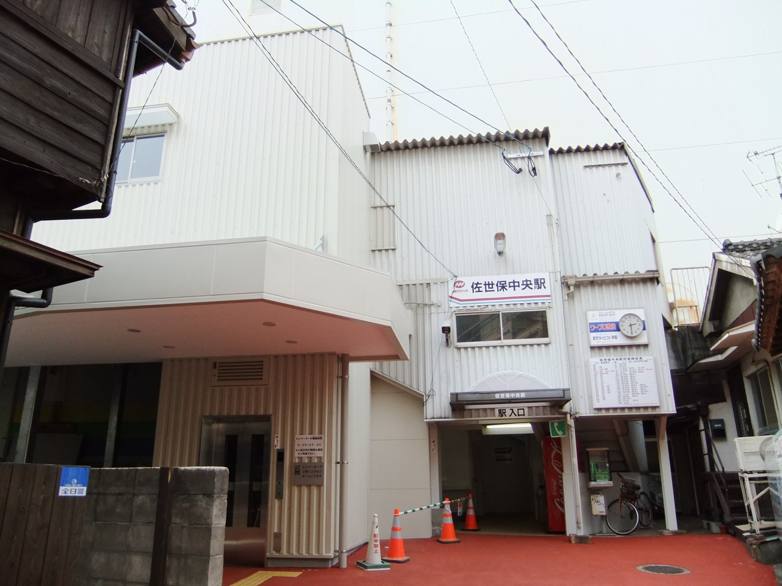 Matsuura Railway Sasebo-Chuo Station